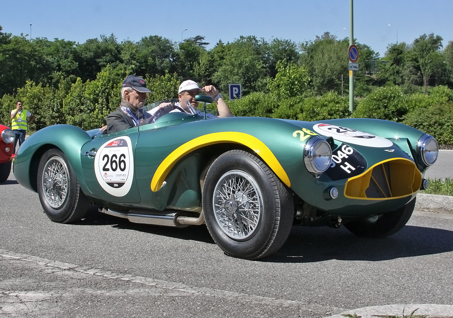 1953 Aston Martin DB3S at the Mille Miglia 2014.